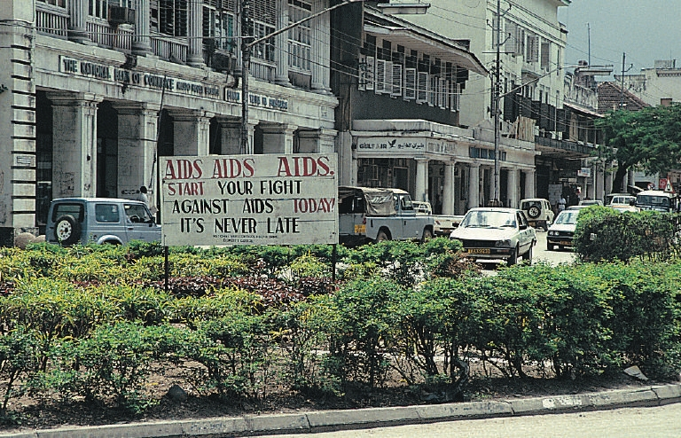 This sign in central Dar-es-Salaam, Tanzania's largest city, reflects the huge concern about AIDS in Africa and the impact it is having on East Africa's death rates.